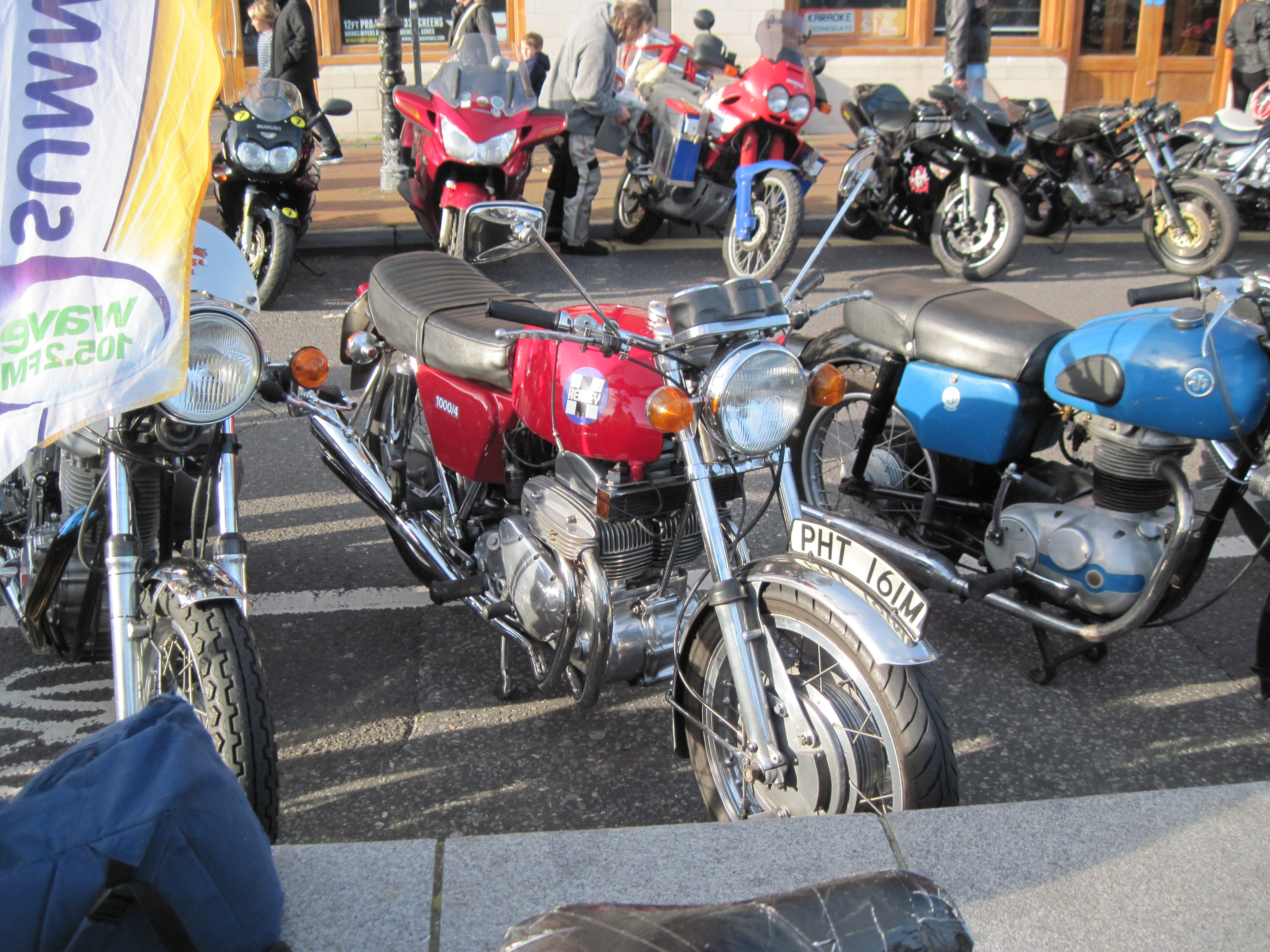 Healey 1000/4 fitted with an Ariel Square Four 1000 cc Engine at Poole Quay (Dorset, England) Bike Night